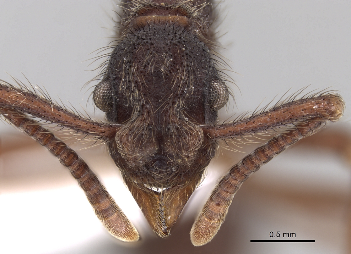 Head view of ant Apterostigma auriculatum. Specimen CASENT0613604